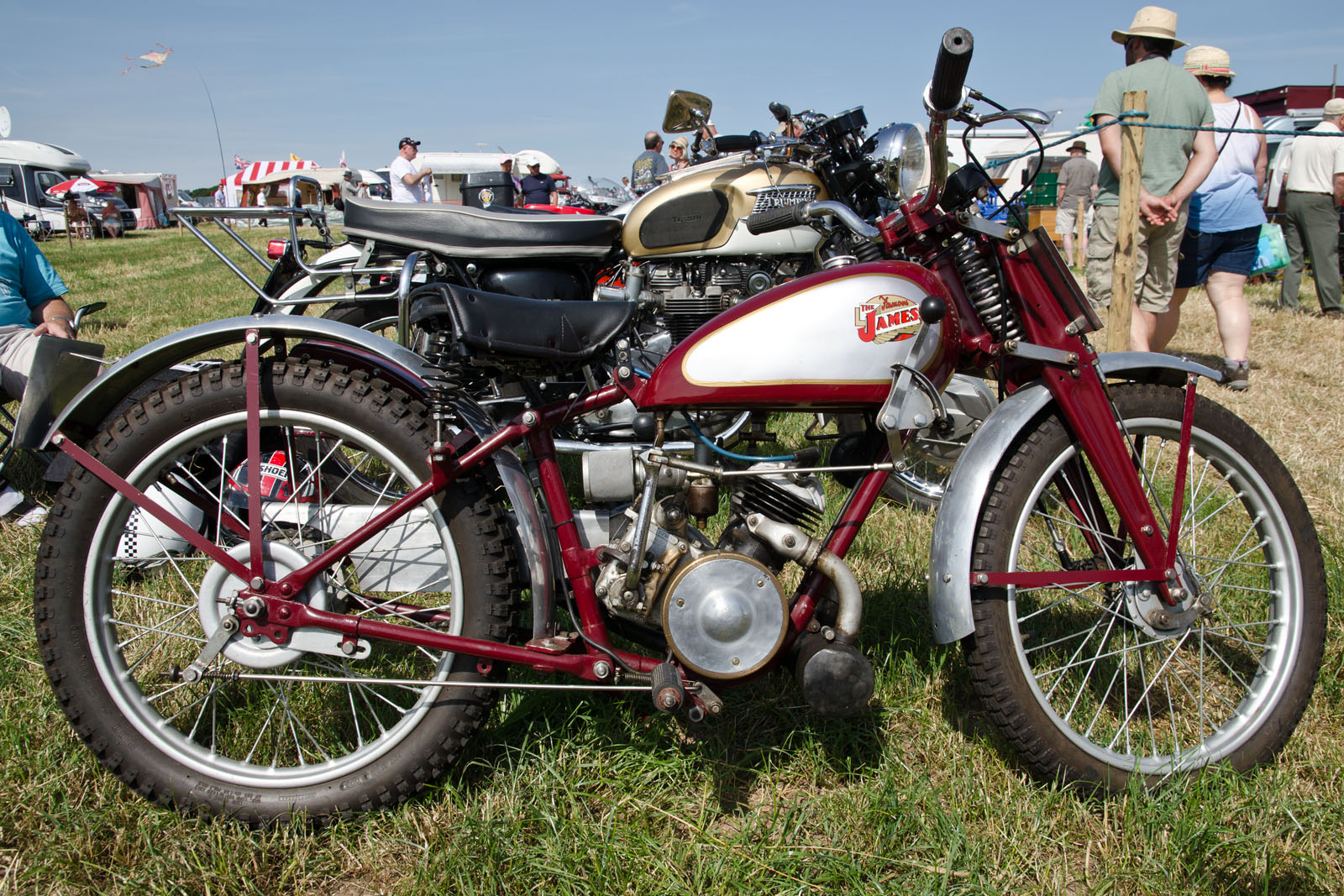 James ML Trials (1947) Cheshire Steam Fair 14/07/2013